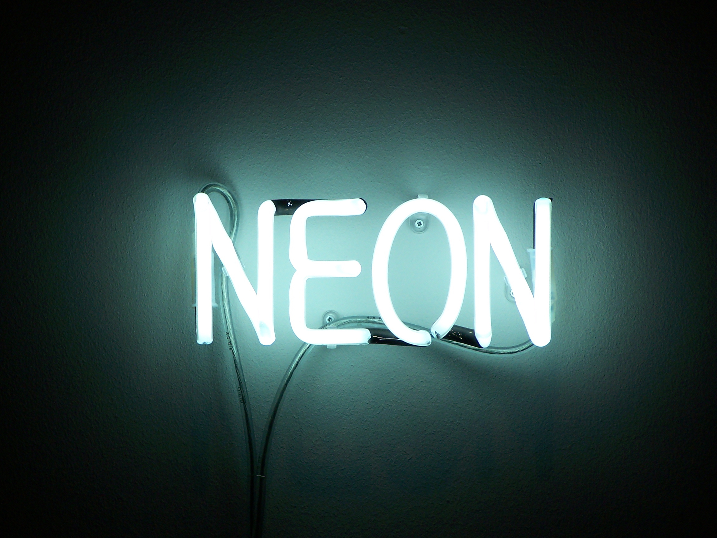 Neon sign.